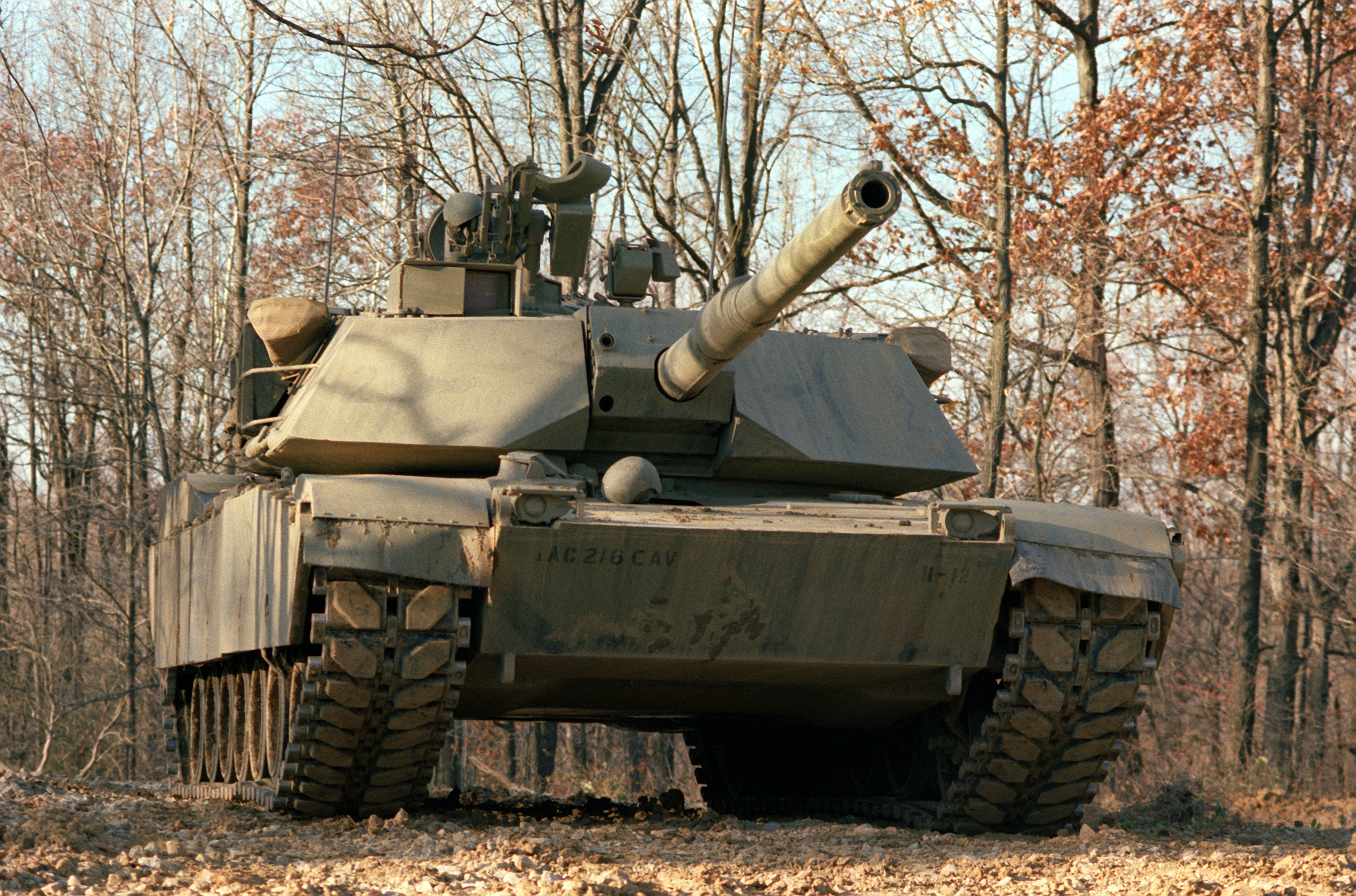 Front view of the XM-1 Abrams tank, which will replace the M-60 series, during demonstration on the test range.